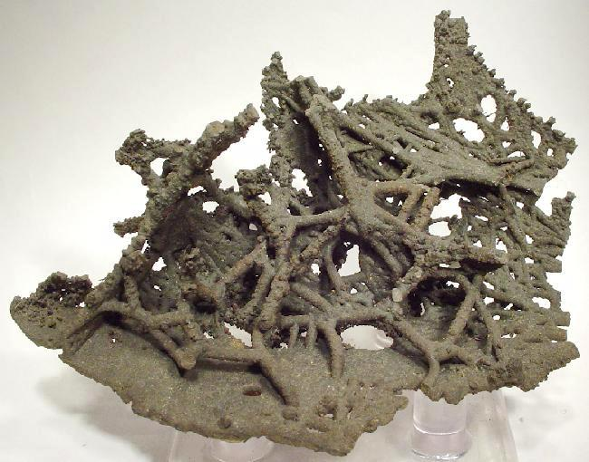 Hollandite Locality: Bisbee, Warren District, Mule Mts, Cochise County, Arizona, USA (Locality at ) An aesthetic and superb latticework of hollandite stalks from Bisbee. This is a real old-timer, that comes with a cloth label attached to the bottom! Ex Richard Hauck Collection. 7.8 x 6.0 x 5.6 cm